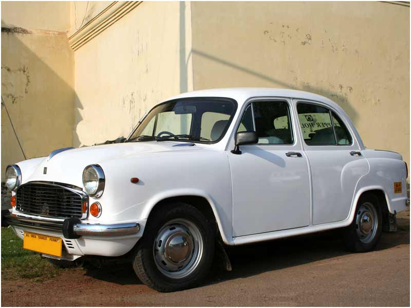 Ambassador taxi in Tiumala